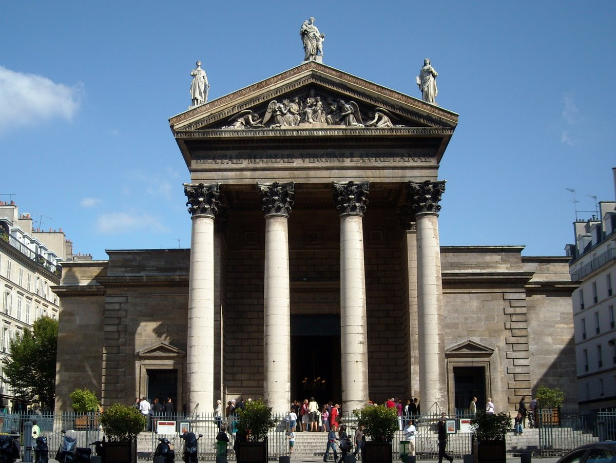 Church of Notre-Dame de Lorette in the 9th arrondissement of Paris. The central figure on the portico is la Charité secourant deux enfants by Charles-René Laitié